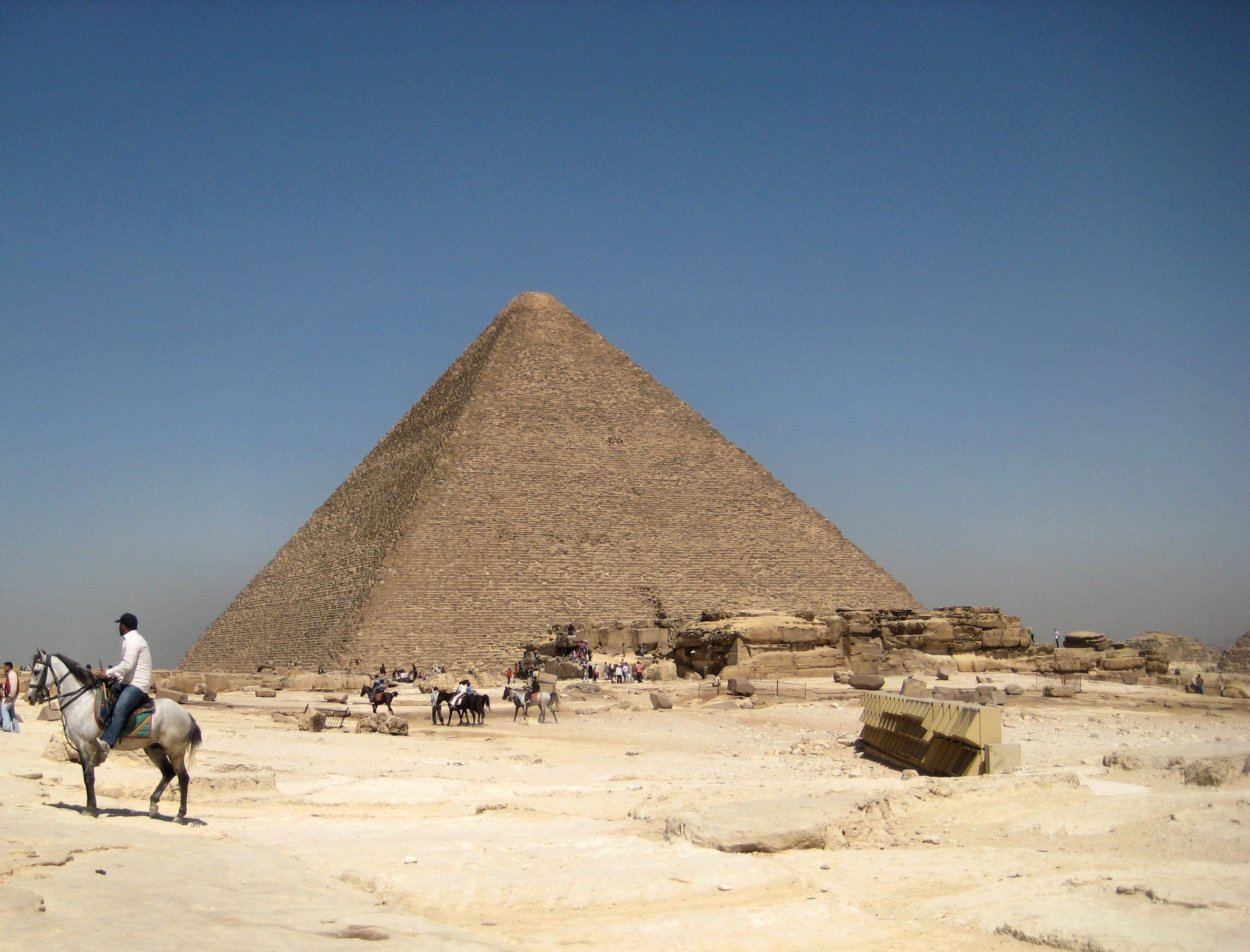 Great Pyramid